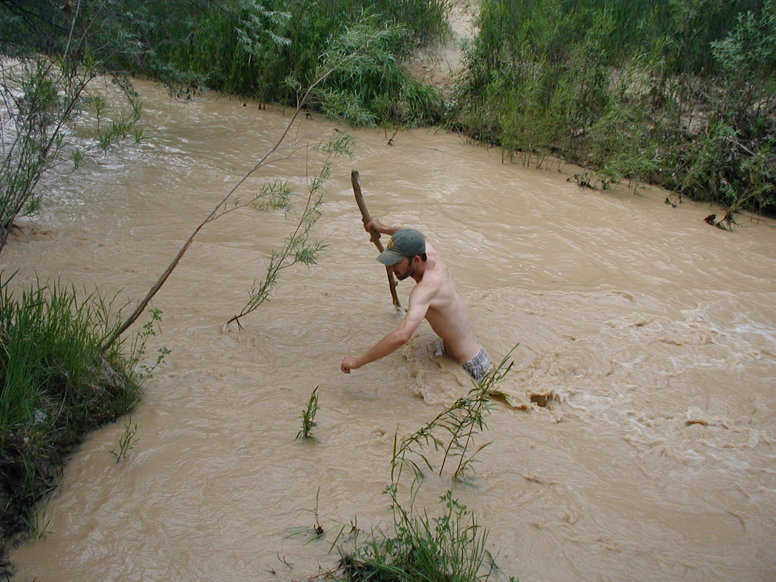 Hiker crossing the flooding Escalante River near its confluence with Sand Creek